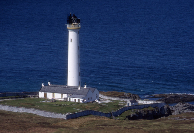 Rhuvaal Lighthouse